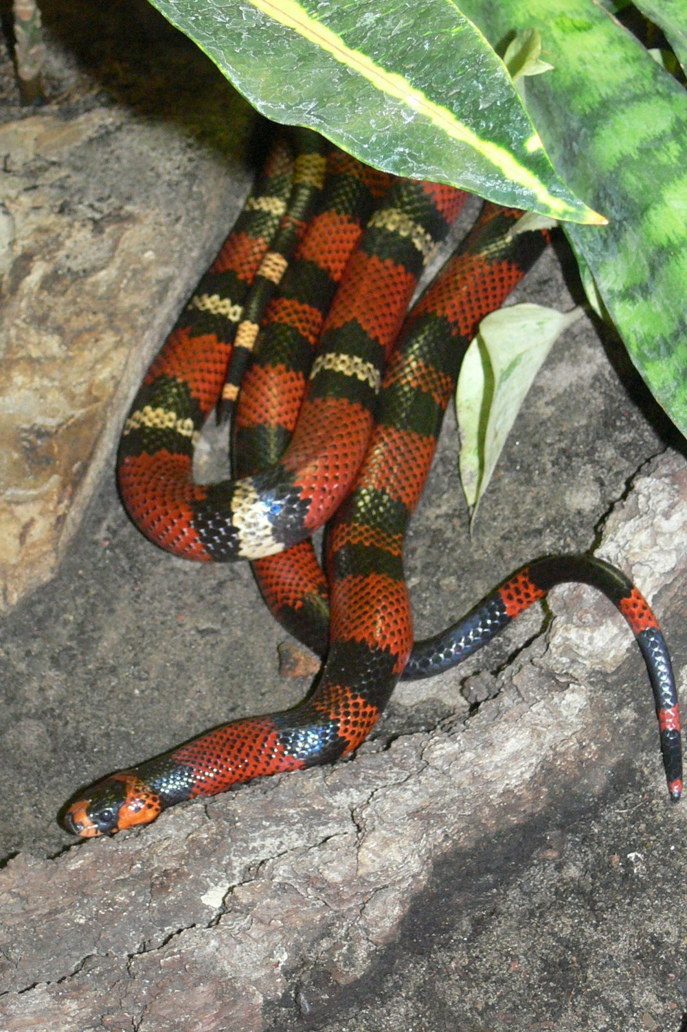 Lampropeltis triangulum taken at the Tierpark Berlin, Germany